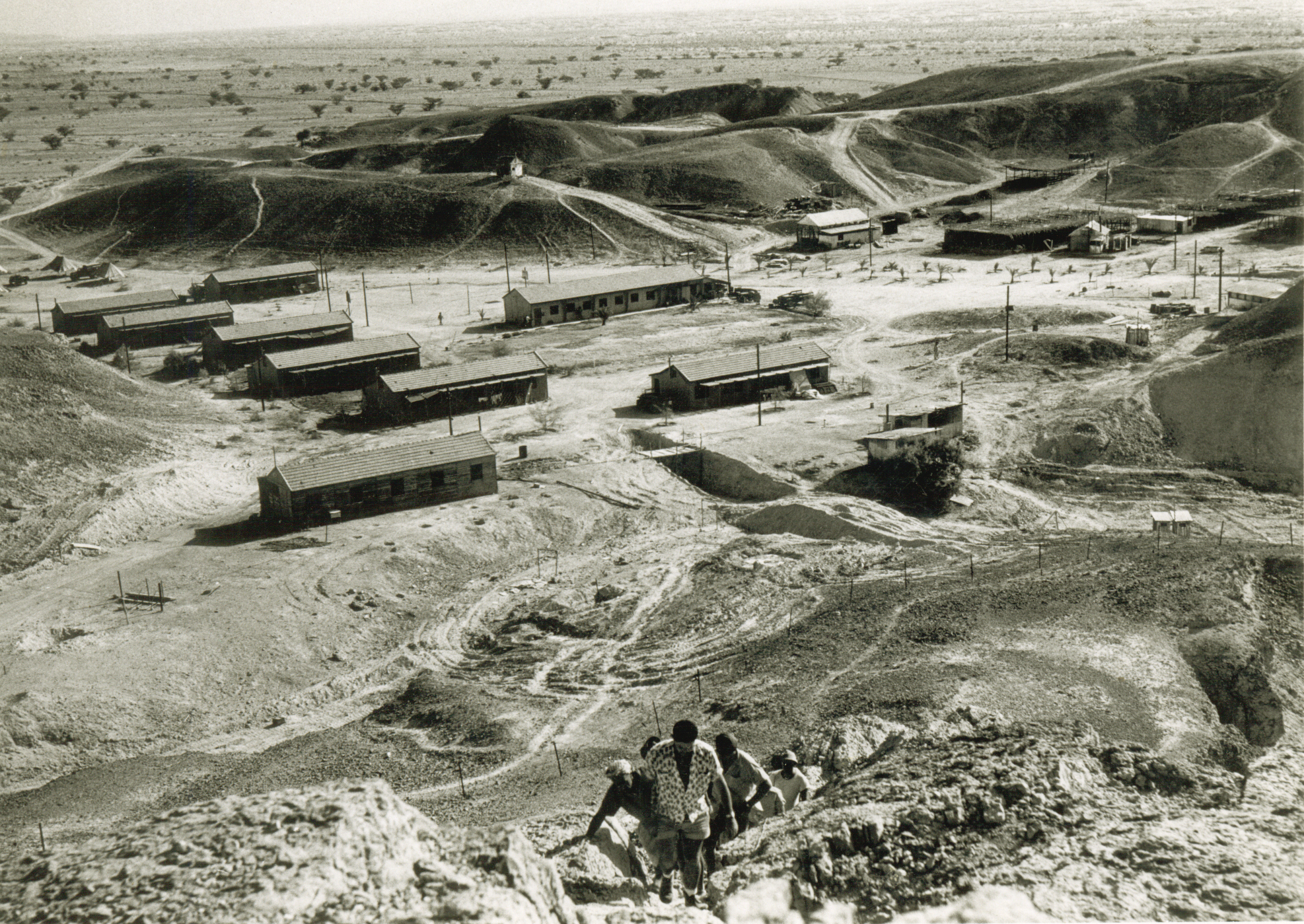 Ein Radian Nahal settlment